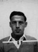 Julius Ashkin Los Alamos wartime security badge.